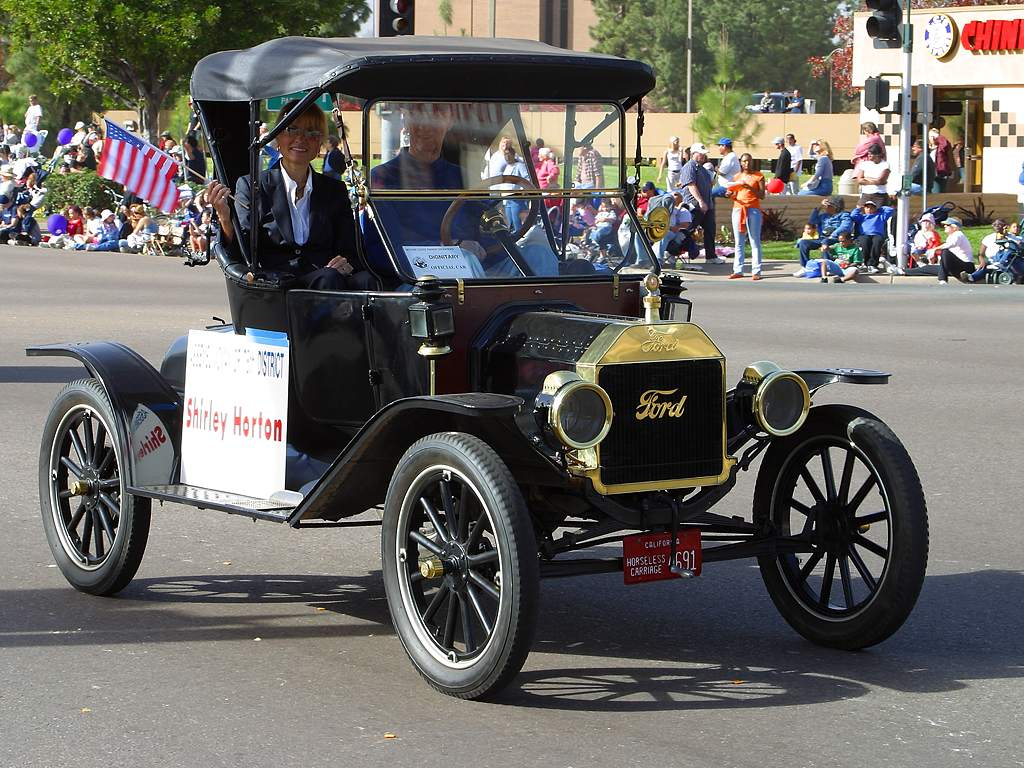 A Ford Model T in the Mother Goose parade.